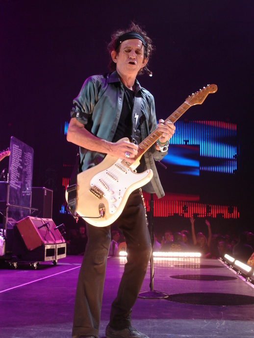 Baltimore,Md. First Mariner Arena. I have lots of other front row pics. Mick is hard to get cause he's always moving around. email me if you'd like some more of my works.